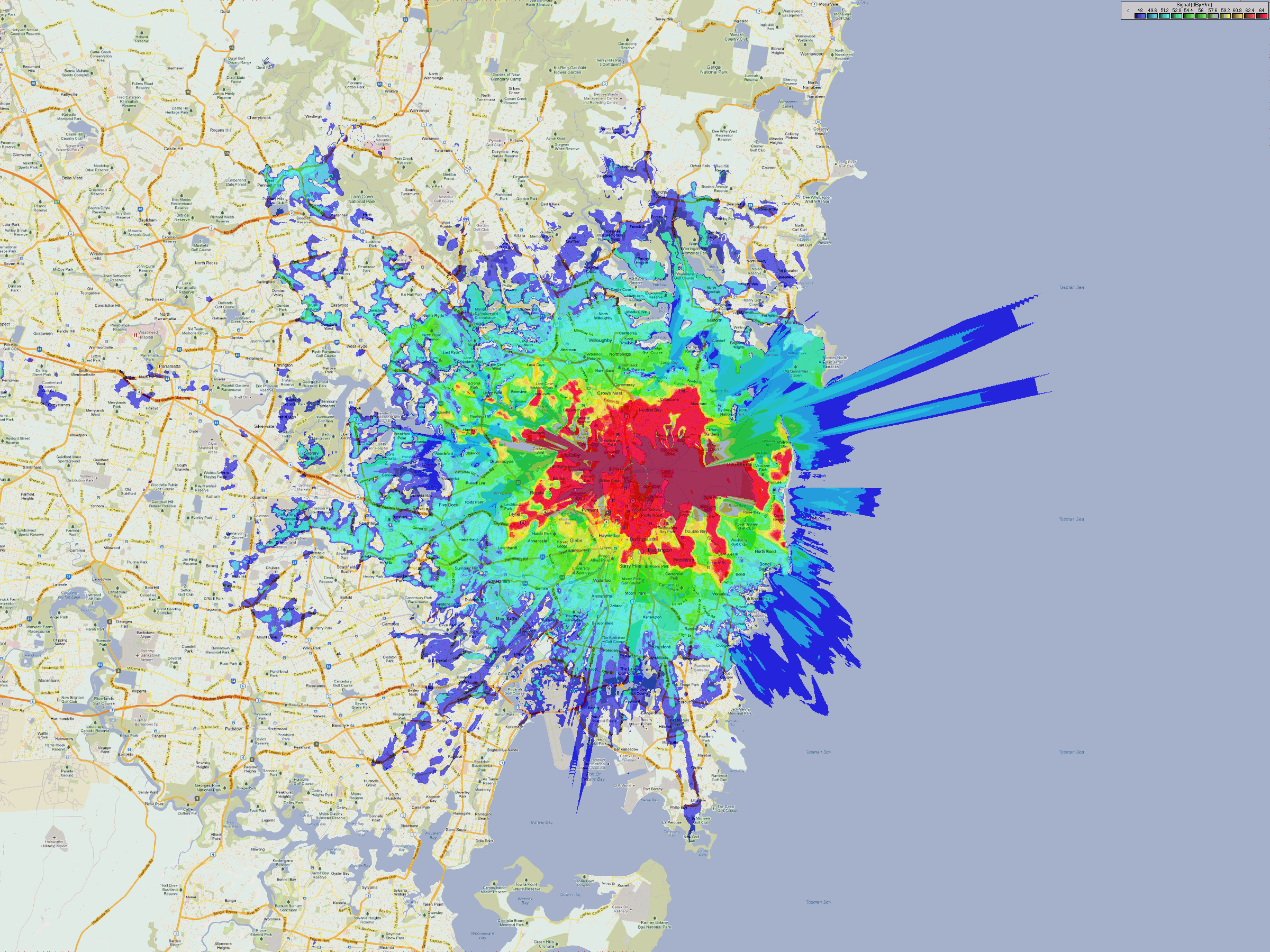 Example radio coverage map from imaginary 100w 100MHz transmitter atop the Syndney Opera House